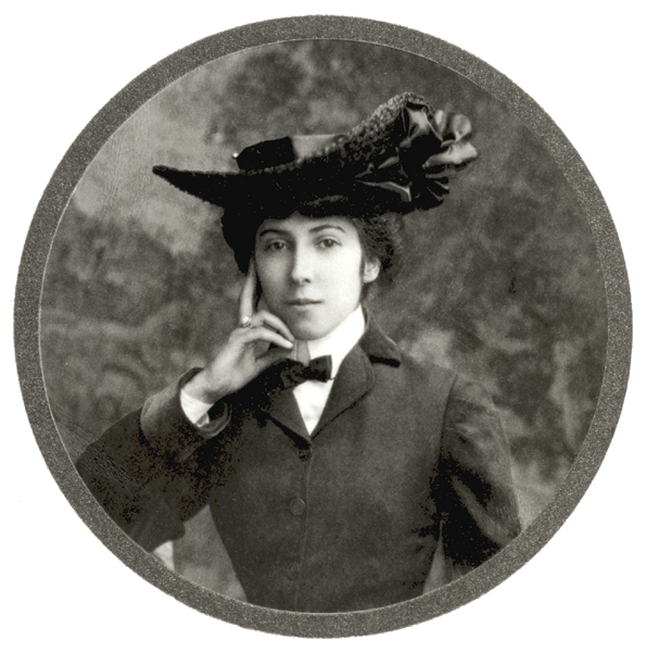 French poet Catherine Pozzi when she was 18.